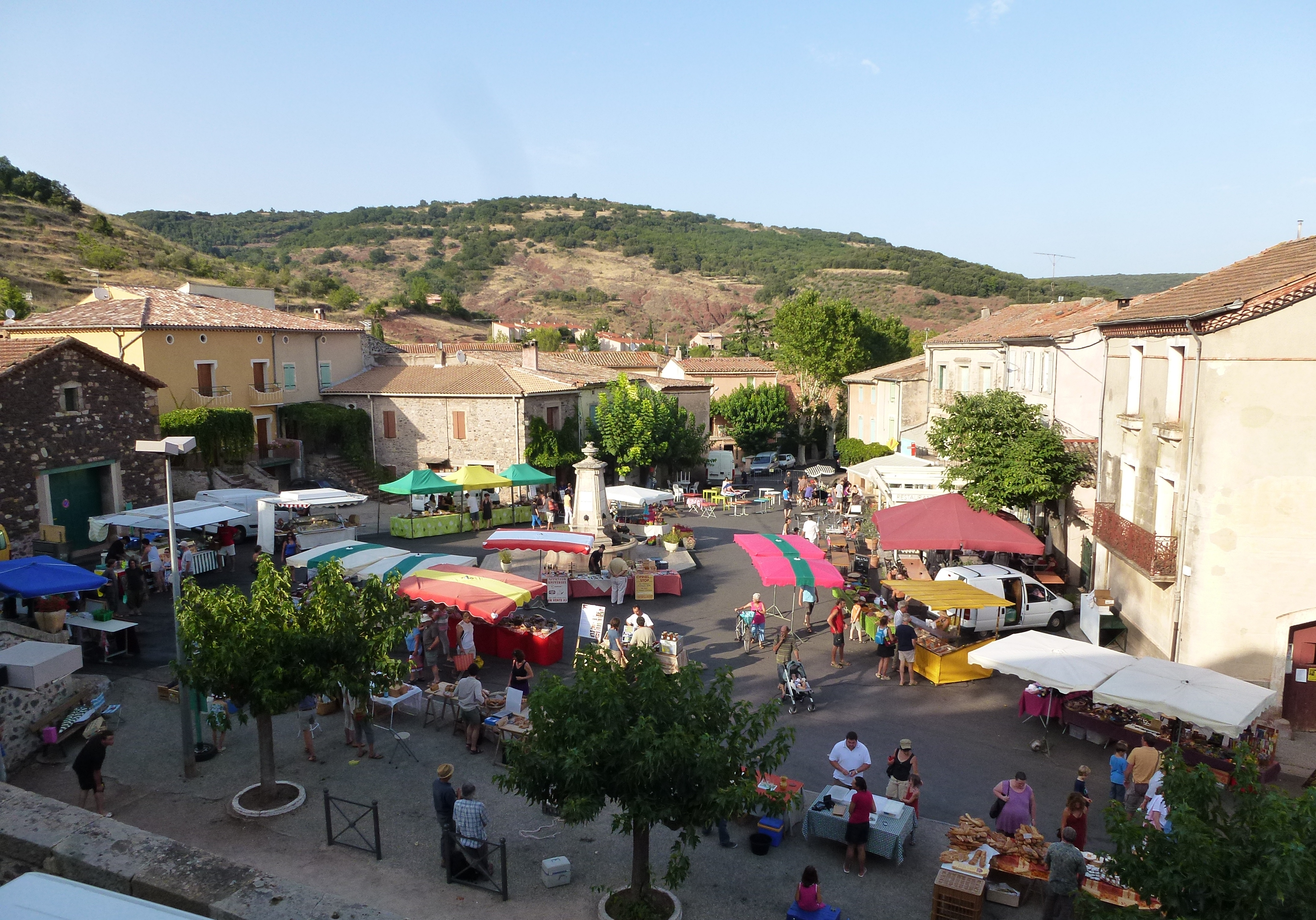 Marketplace in the village Octon in Southern France near Clermont-l'Hérault